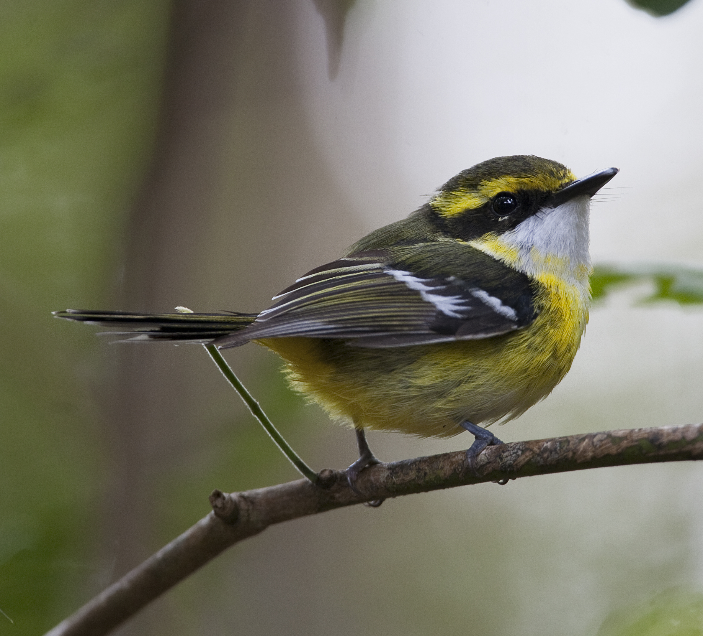 This shot makes up for the poor one that I got of this species the last time we were in it's domain. It is found in the tropical forests of North Queensland and I couldn't believe my good fortune when it eyeballed me and stayed long enough for a few shots! This is another species that is also found in Papua New Guinea.